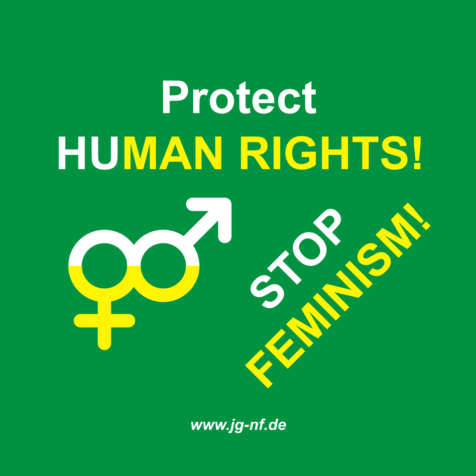 Protect huMAN rights! Stop feminism!